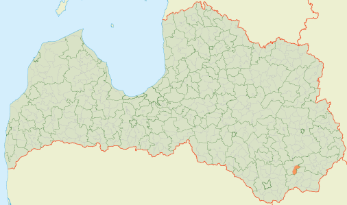 Location map of Grāveri parish (Latvia)